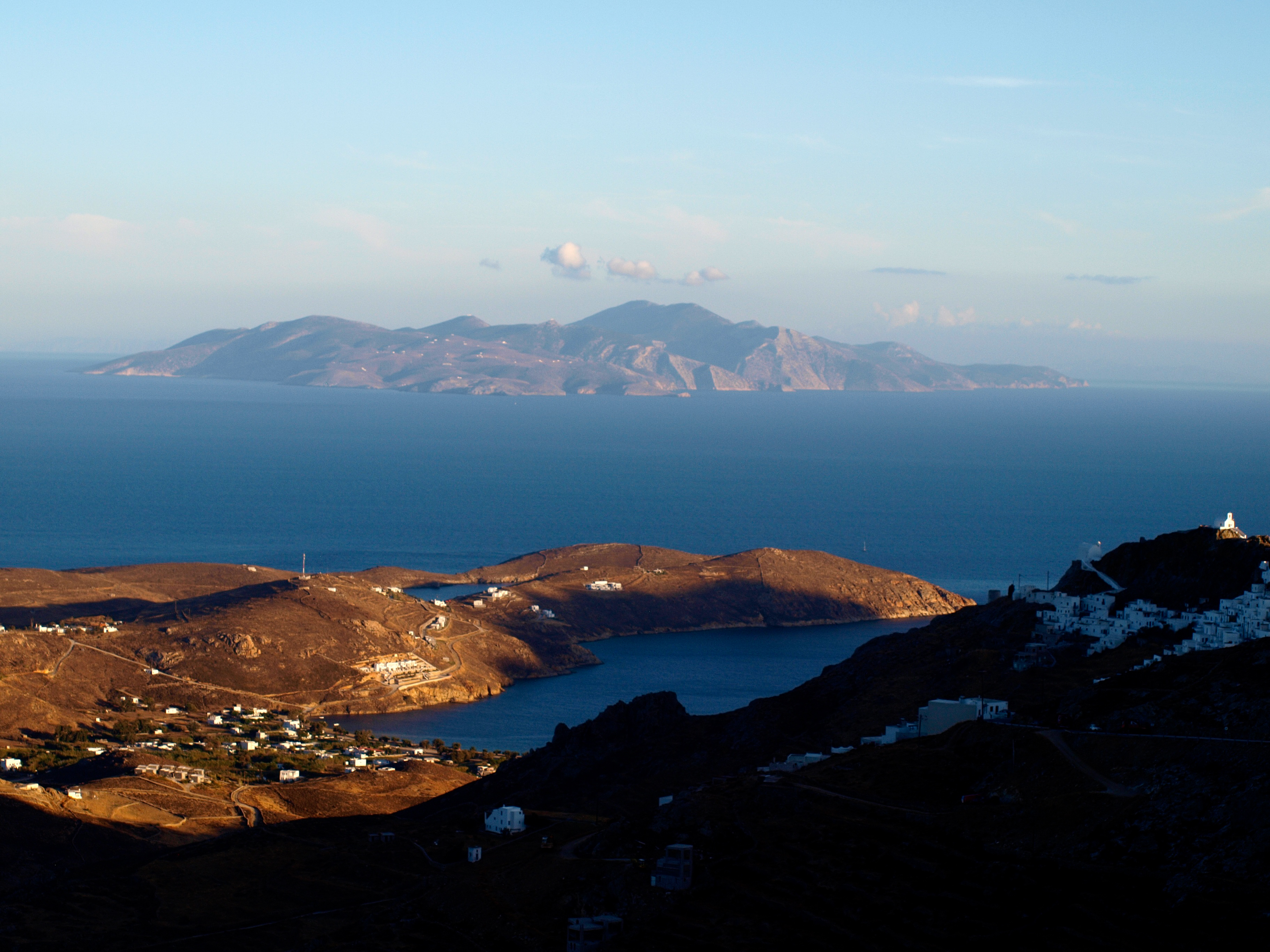 Sifnos, seen from Livadi, Serifos, Greece, in the evening